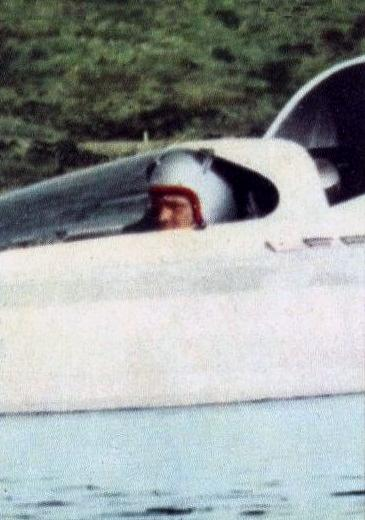 Lee Taylor, USA (California), Water speed record 1967-06-30 (Lake Guntersville, on 'Hustler' - 285.22 mph - 459.02 kmh - during ten years), 'Campioni dello Sport 1969 - 1970', Panini figurina n°433.